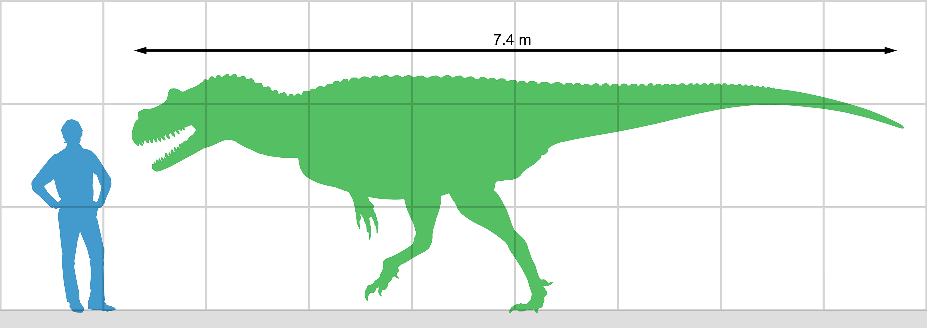 Size of Genyodectes when scaled by closely related Ceratosaurus